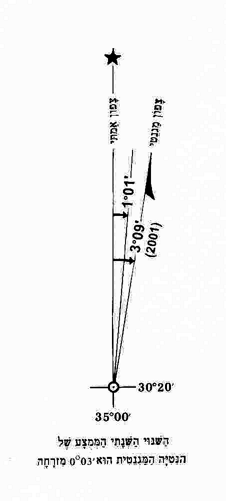 Change of magnetic declination in Israel map (Statement for 2001)